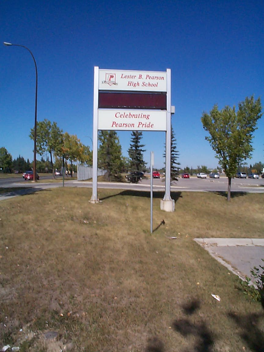 Lester B. Pearson High School is a public senior high school operated by the Calgary Board of Education. Its address is 3020 - 52 Street N.E., Calgary, Alberta, Canada, T1Y 5P4.